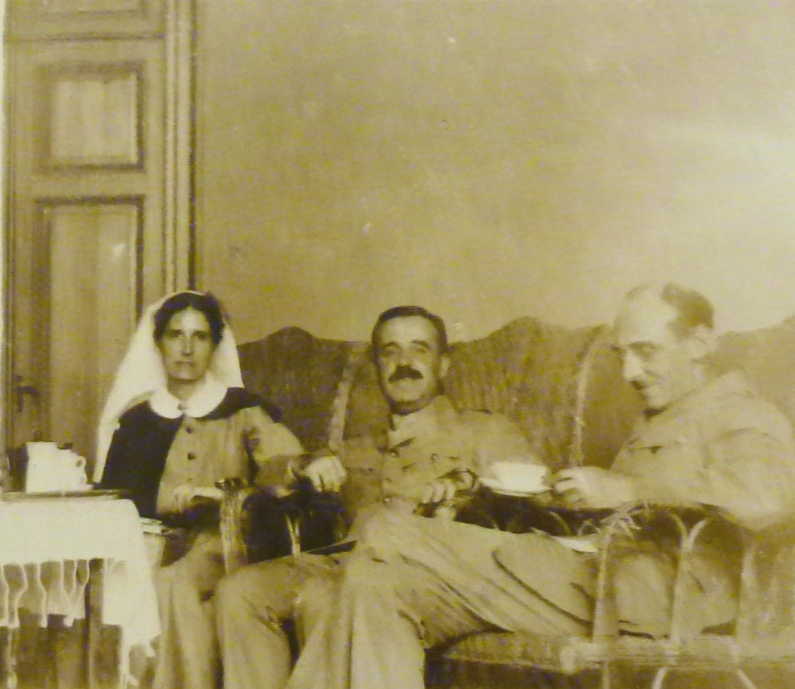 Sister Florence Elizabeth McMillan and Sir Charles James Martin, responsible for groundbreaking pathology work at Lemnos. Dr Anderson is in the centre. Photo of page from the Thomas Lynewolde Anderson Papers (State Library of Victoria, MS 9928). Major T.L. Anderson served with the Australian Army Medical Corps, 3rd Australian General Hospital. Link to record: .au/primo_library/libweb/action/dlDispl... Original photo in the public domain, this photo for research purposes only.